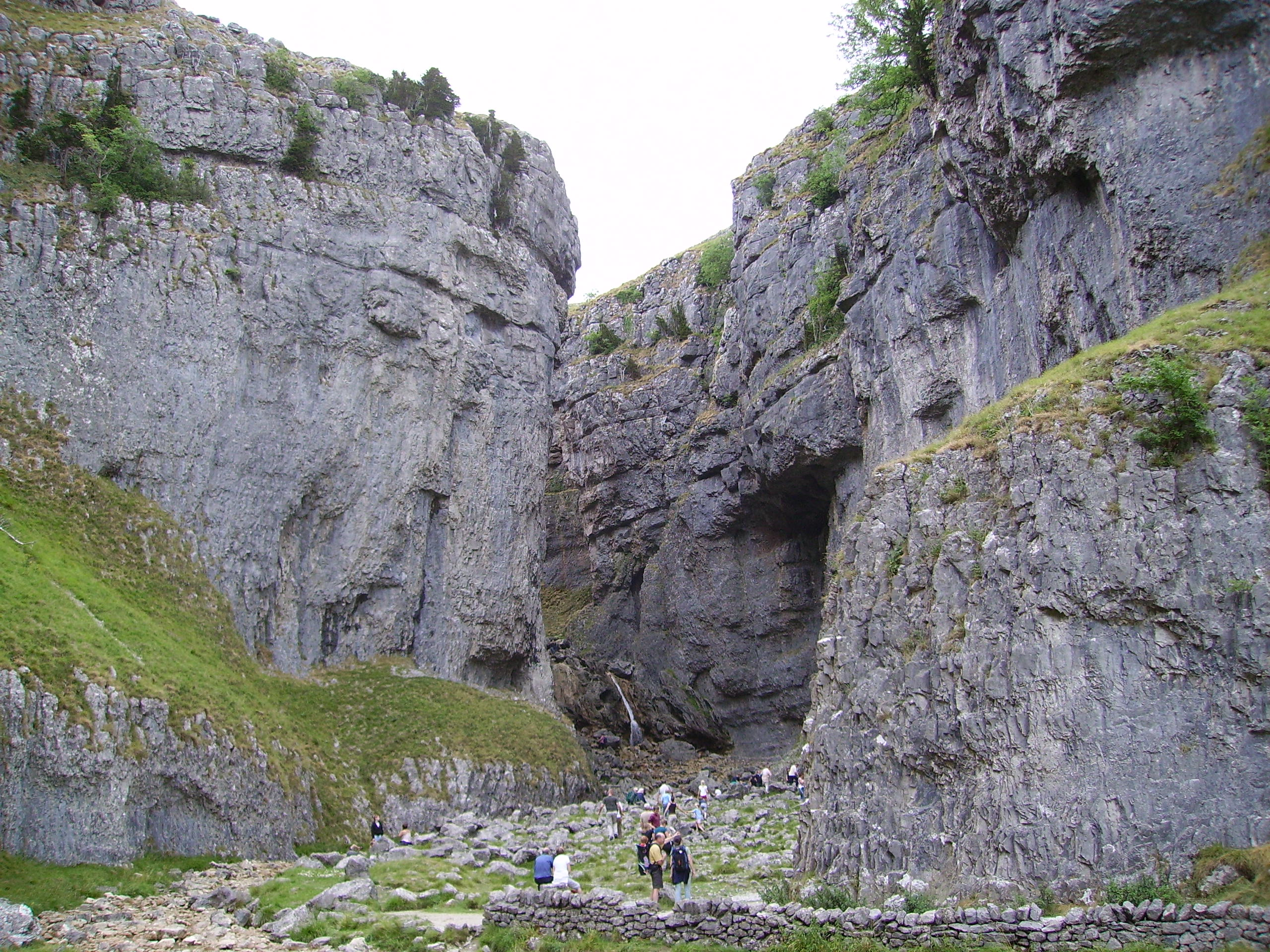 Gordale Scar in the Yorkshire Dales, United Kingdom